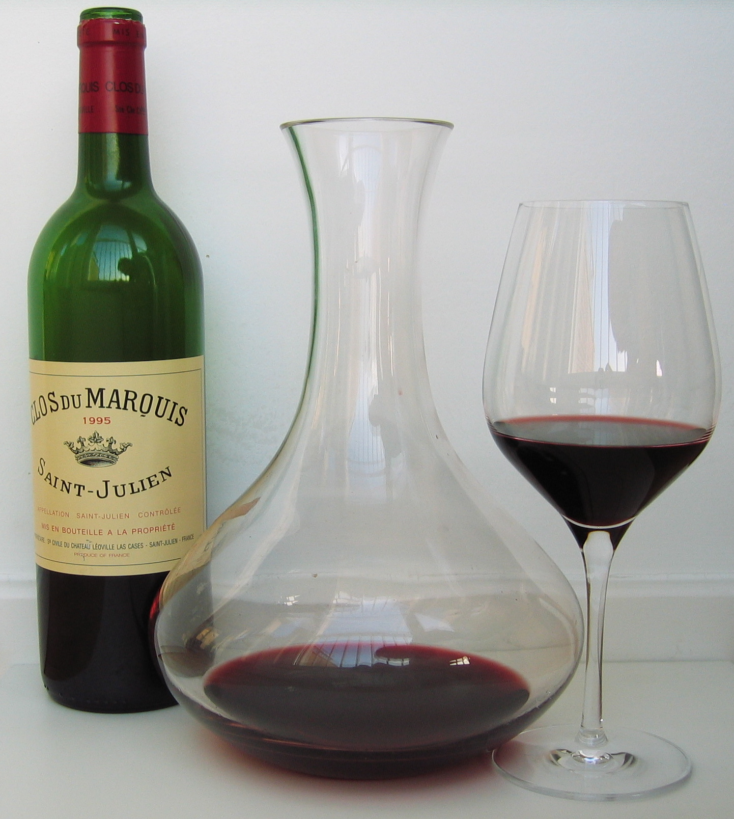 Clos du Marquis 1995, a Bordeaux wine from Saint-Julien, served from a decanter